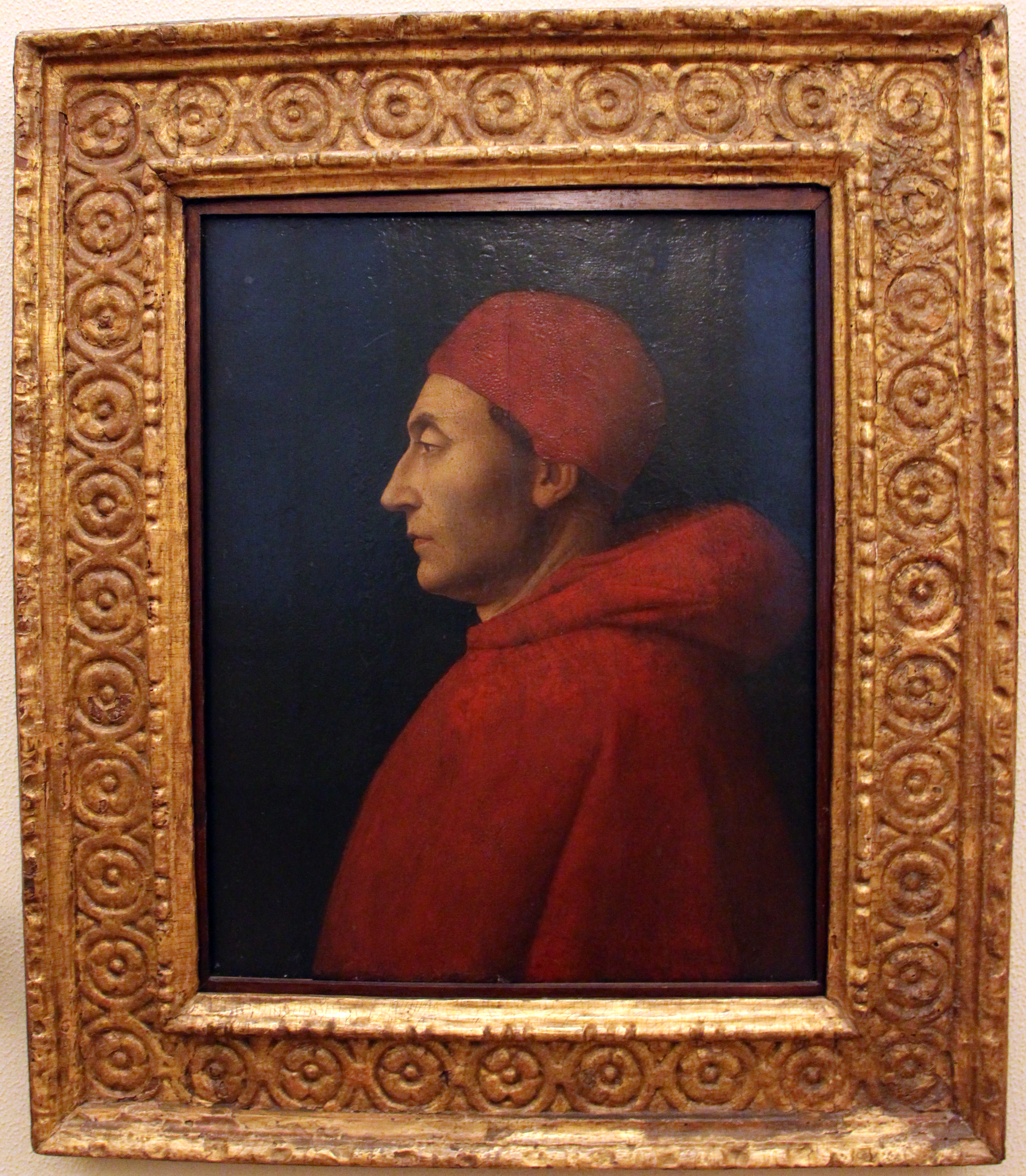 Paintings in the Museo Poldi Pezzoli (Milan)